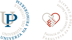 The official logo of The Faculty of health sciences, University of Primorska, Slovenia